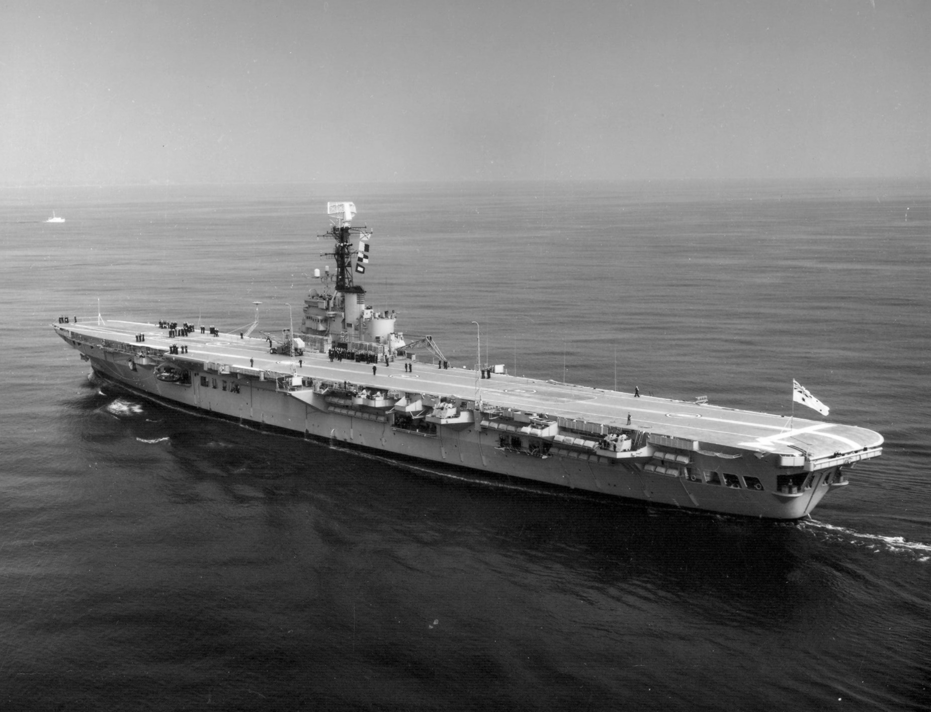 The Australian carrier HMAS Melbourne (R21) underway in 1967.